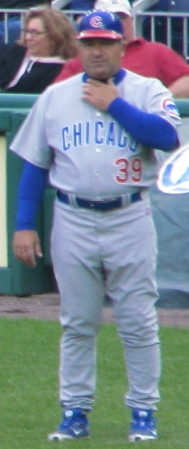 First base coach for the Chicago Cubs, Matt Sinatro. Cropped from original. Rockfang (talk) 01:01, 6 October 2008 (UTC)